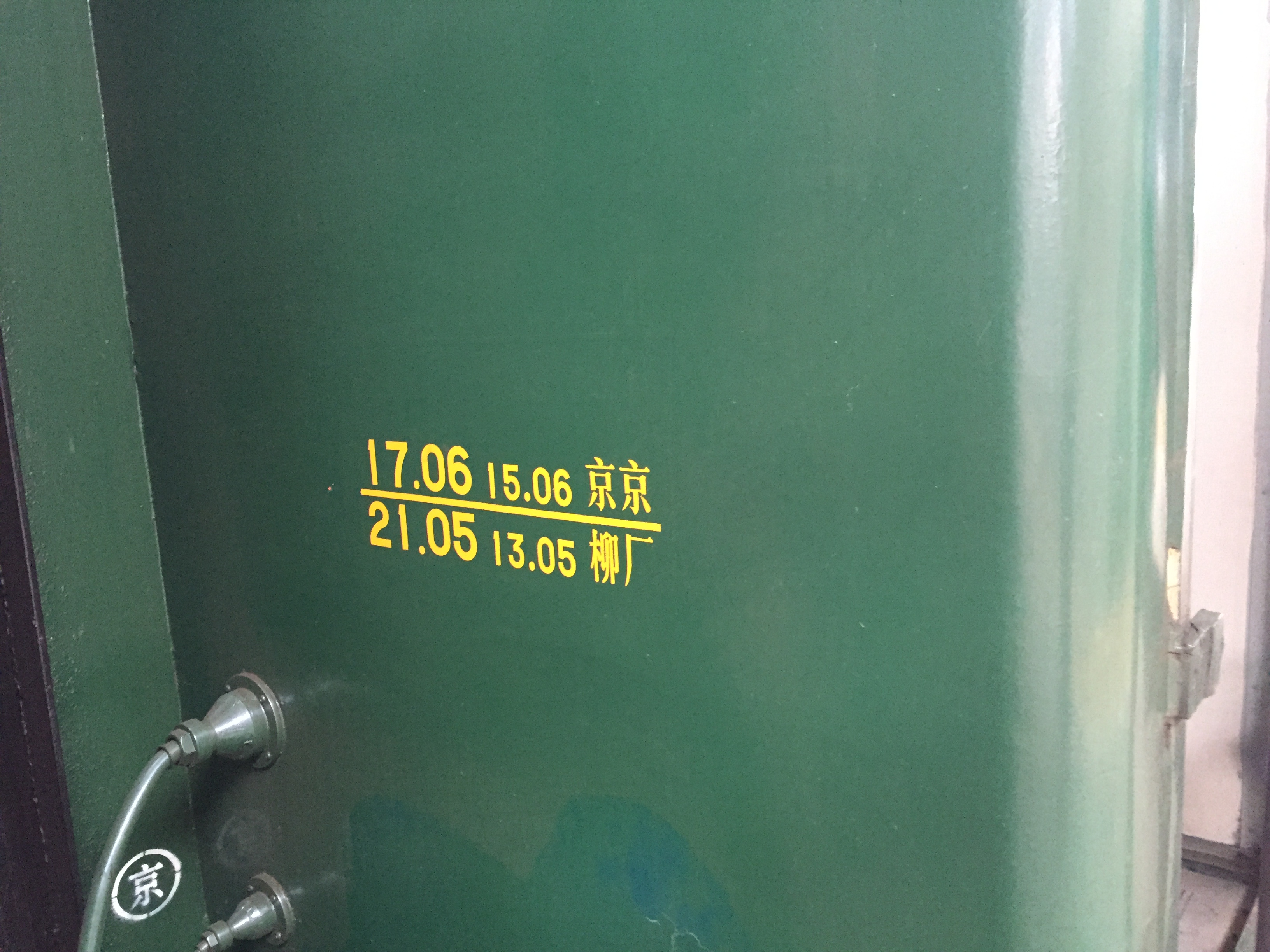 It's got a maintenance in Liuzhou Locomotive and Rolling Stock Works.